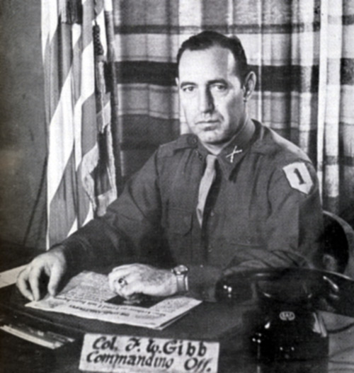 Frederick William Gibb (July 24, 1908 – September 6, 1968) was an United States Army officer with the rank of Major General. Gibb commanded the 16th Infantry Regiment during World War II. His last assignment was the Commander of the 2nd Infantry Division ("Indianhead") at Fort Benning, Georgia.